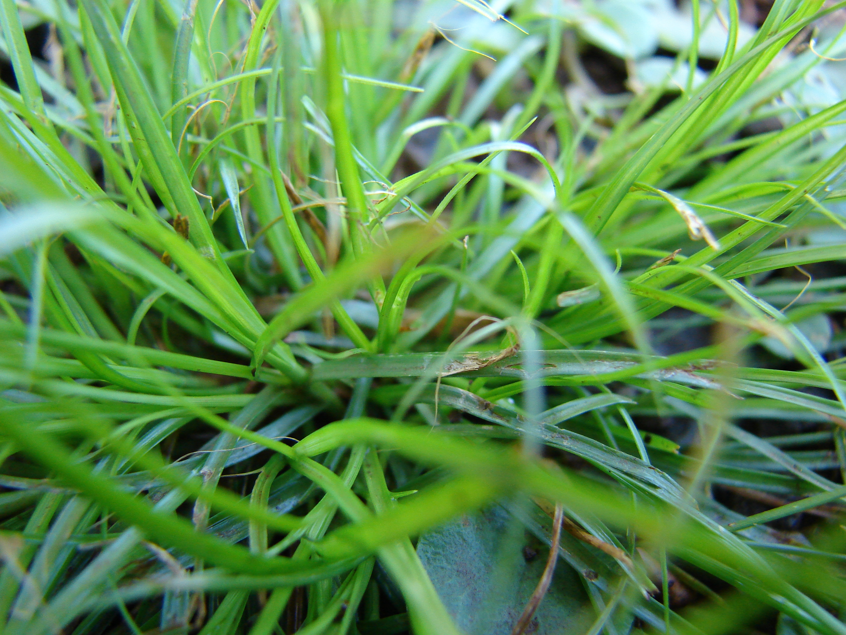 Cyperus gracilis (habit). Location: Maui, Makawao